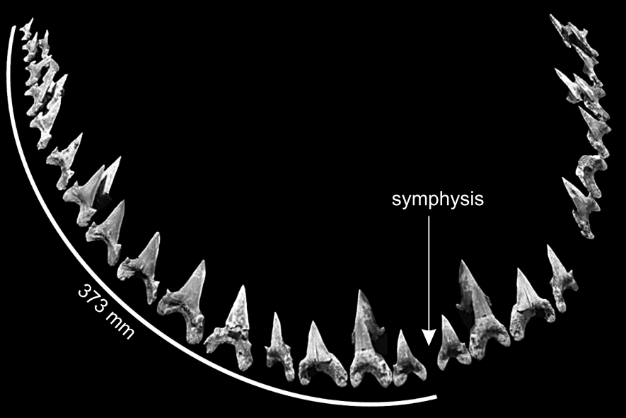 Reconstructed lower dentition of Cardabiodon ricki Siverson, 1999 (WAM 96.4.45) from uppermost 10 cm of the Gearle Siltstone (middle Cenomanian), CY Creek, Giralia Range, Western Australia. The first four teeth left of the symphysis is mirrored from the right.